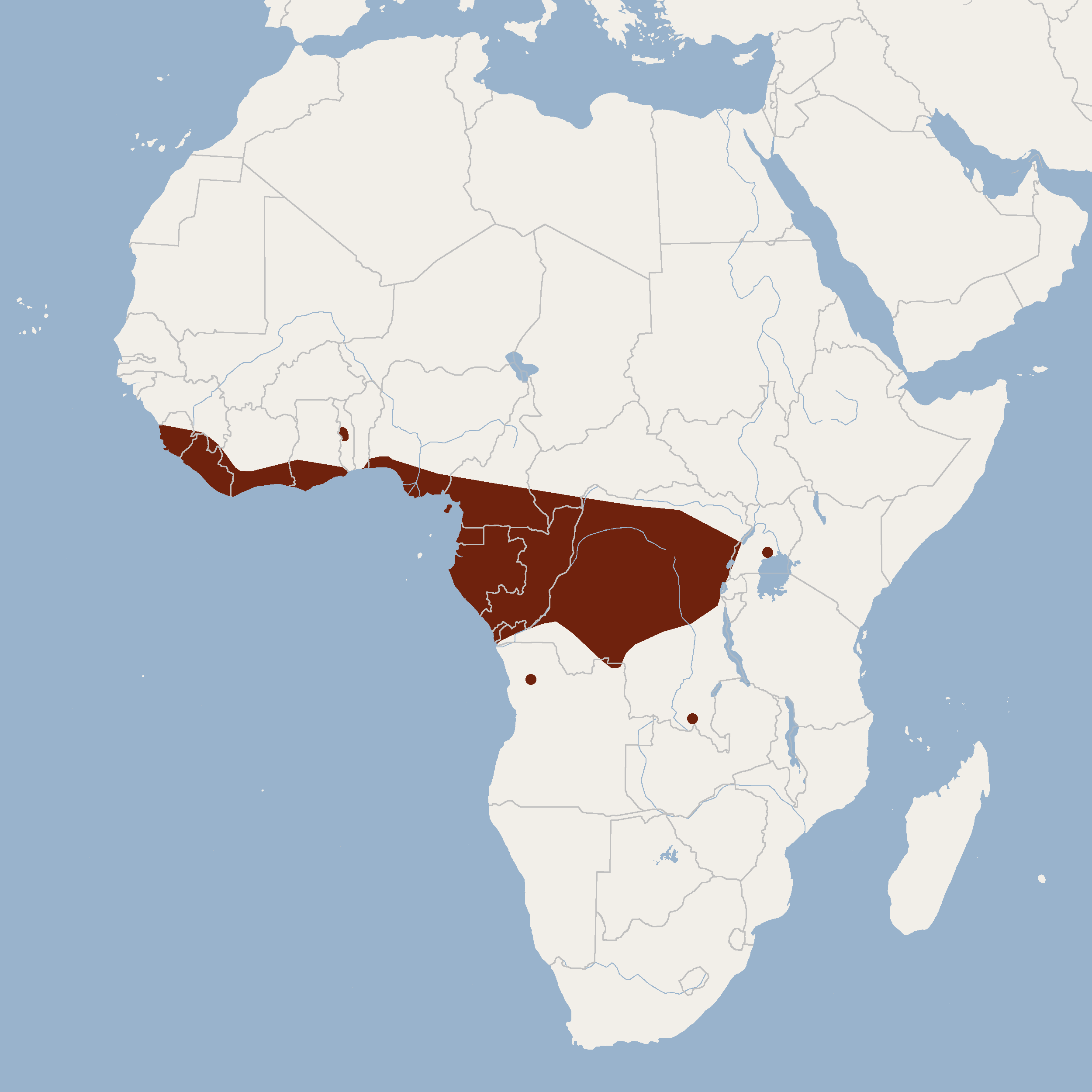 According to Happold & Happold, 2013